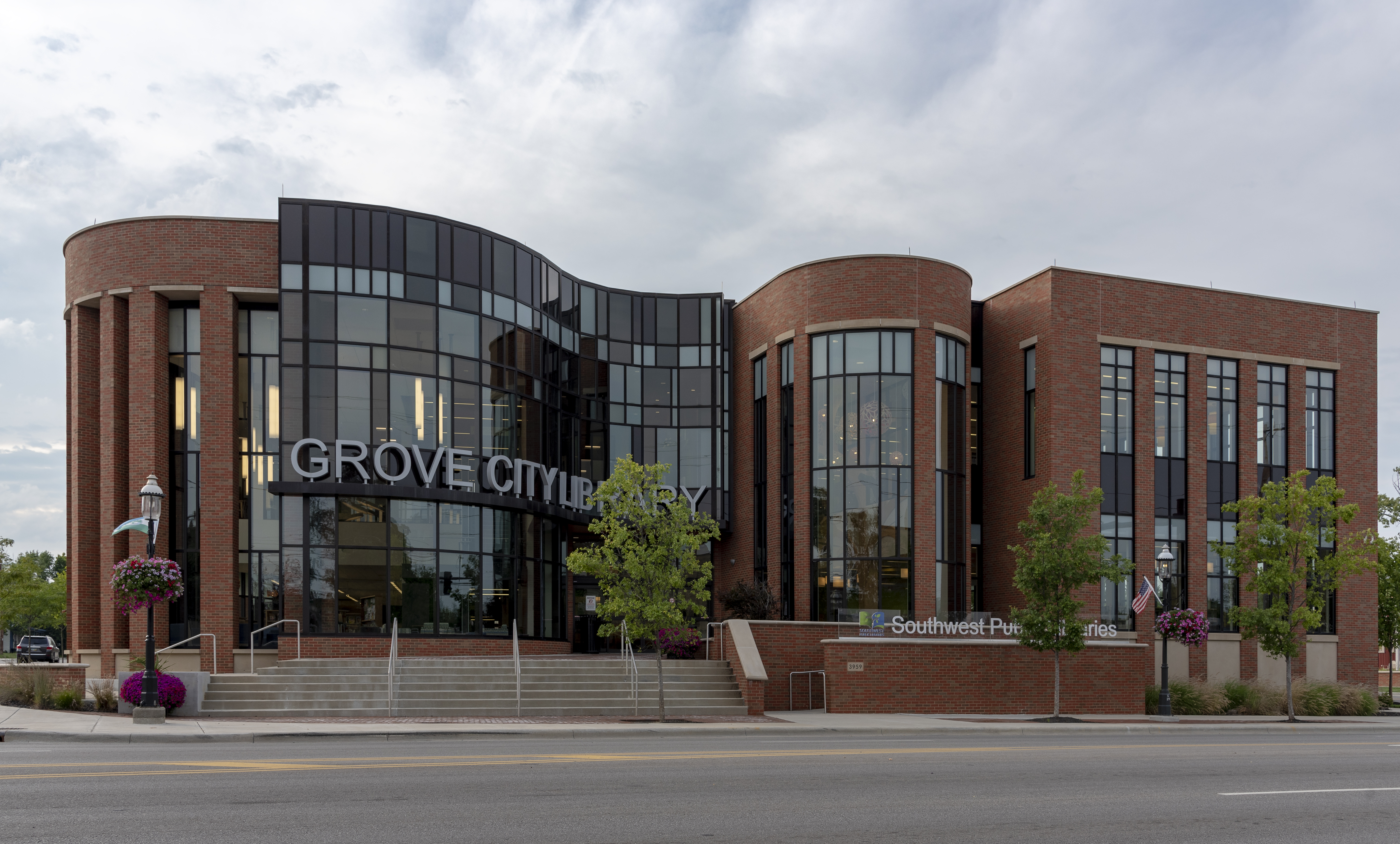 Grove City, Ohio library. Viewed looking northwest.